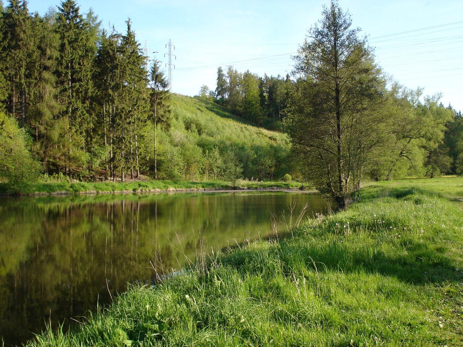 Borovina pond in Třebíč, Czech Republic.